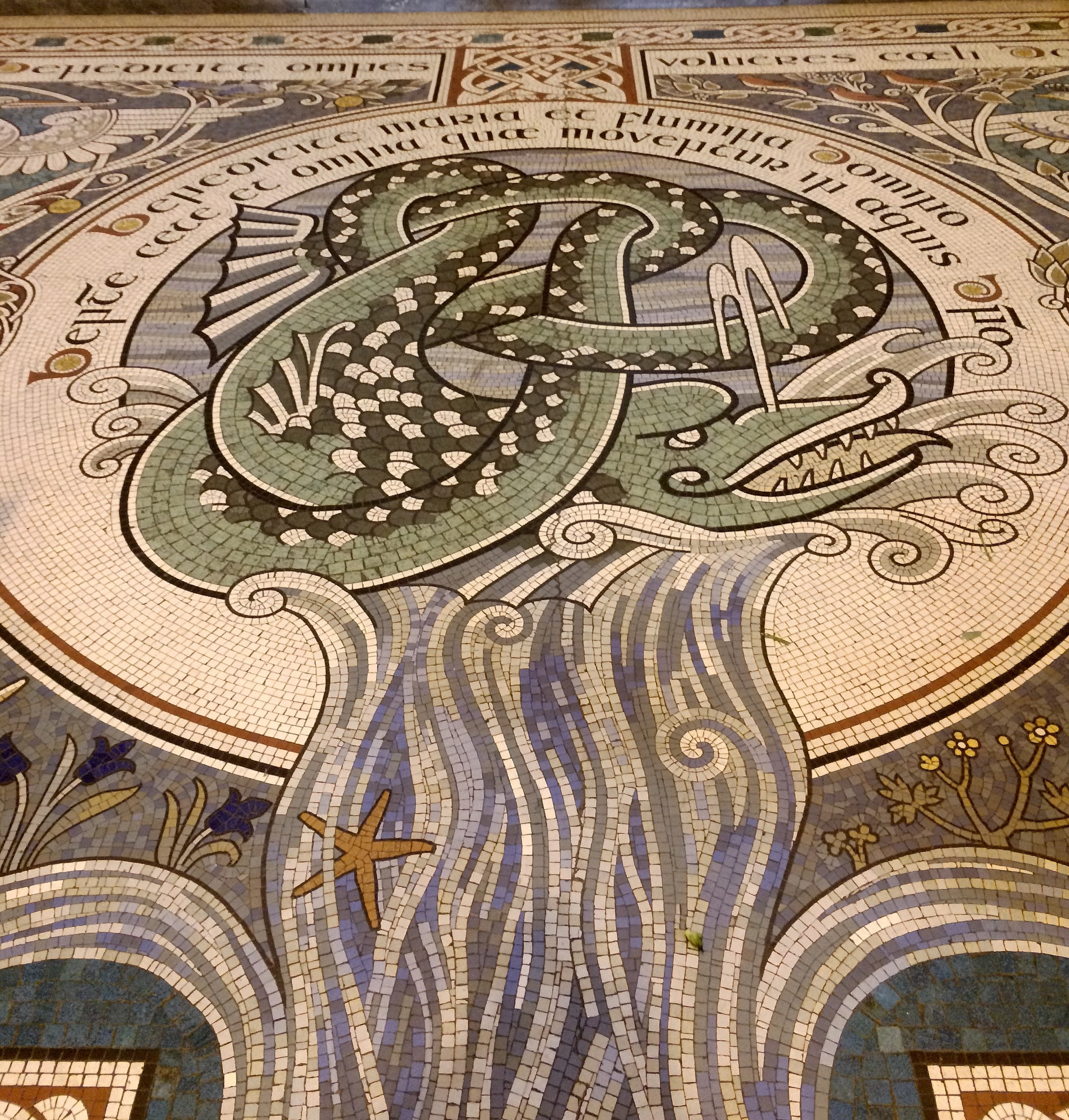 Cork, Honan Chapel. Wikidata has entry Q5892033 with data related to this item.